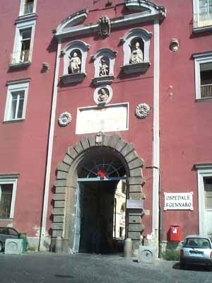 San Gennaro dei Poveri in Naples.